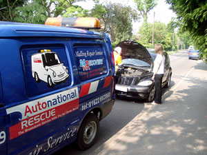 Roadside assistance by Autonational Rescue